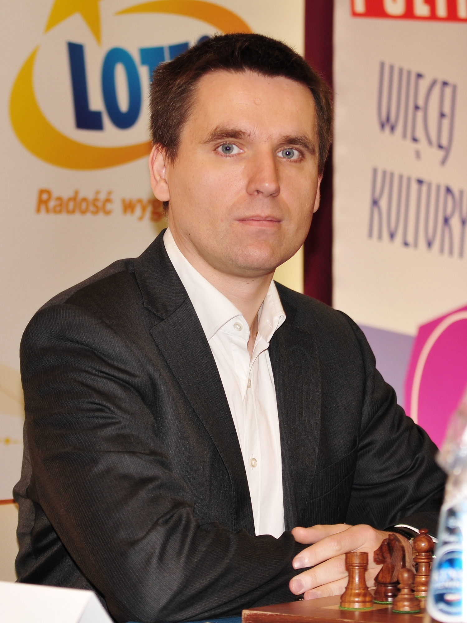 GM Bartosz Soćko, European Chess Team Championship Warsaw 2013